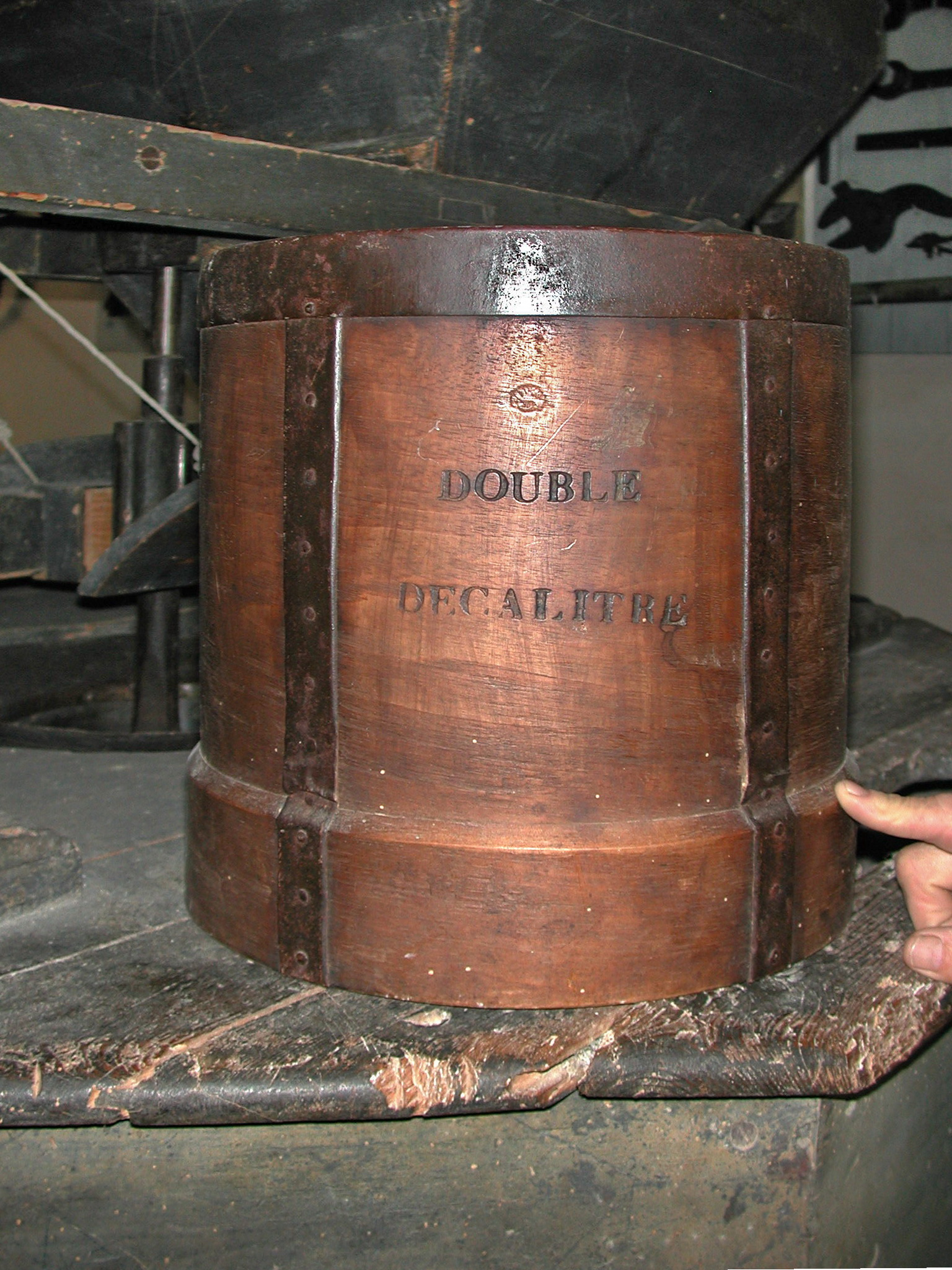 Mons(Var) old watermills (Lambert's mills) corn, olive fuller, on Siagnole river: measure